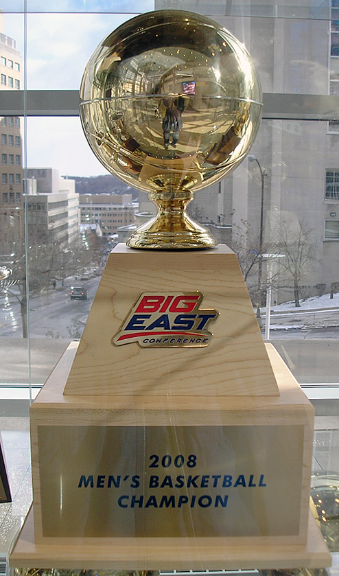 The 2008 Big East men's basketball tournament trophy won by the University of Pittsburgh Panthers and on display at Pitt's Petersen Events Center